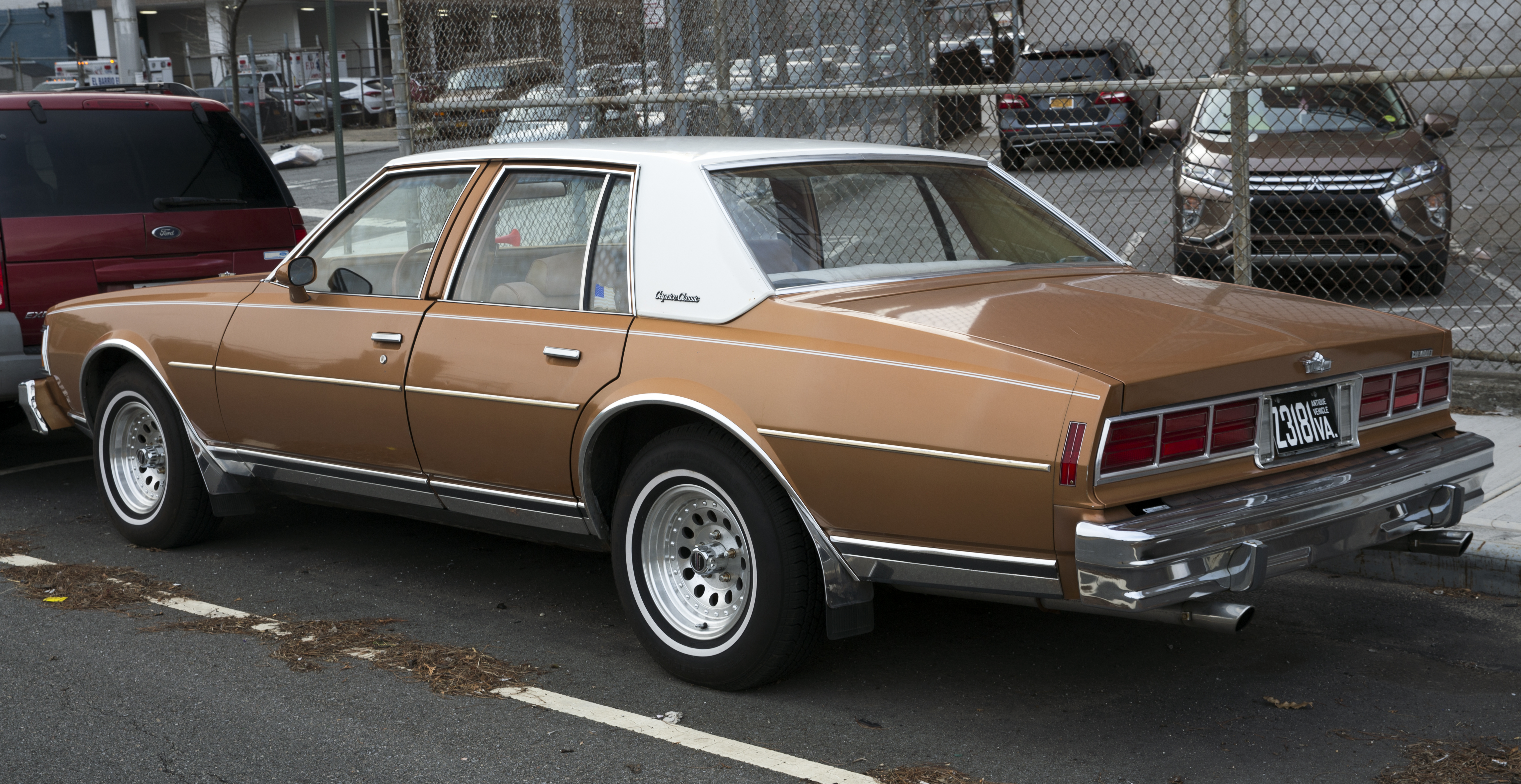 A 1978 Chevrolet Caprice Classic four-door sedan in a suitable shade of coppery brown.